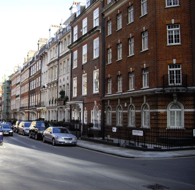 Green Street Picture taken at junction with Dunraven Street (right)